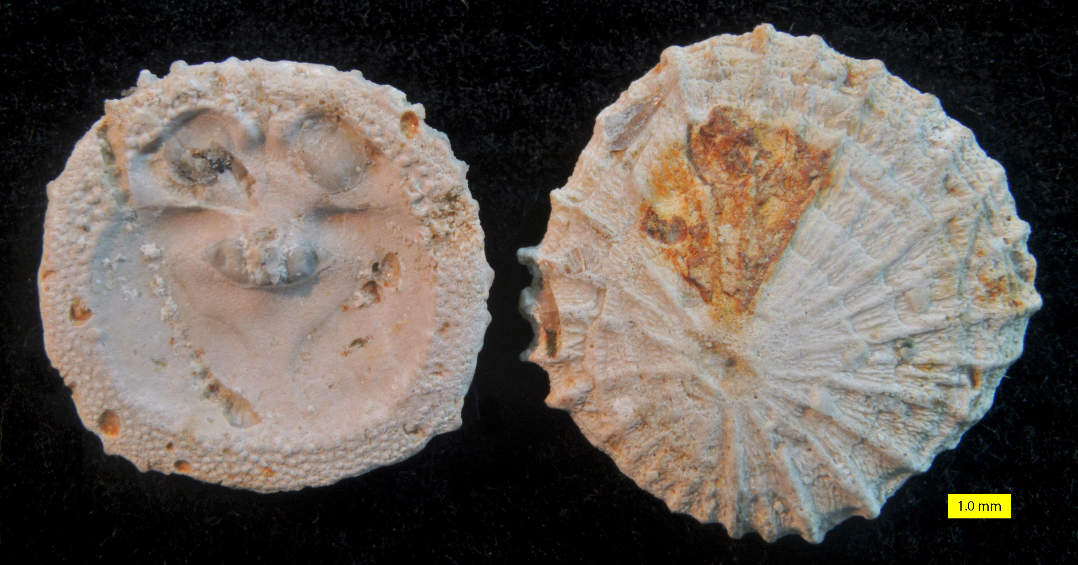 Isocrania costata from the Upper Maastrichtian (Upper Cretaceous), ENCI Quarry, Maastricht, The Netherlands. From the collection of Clive Champion.